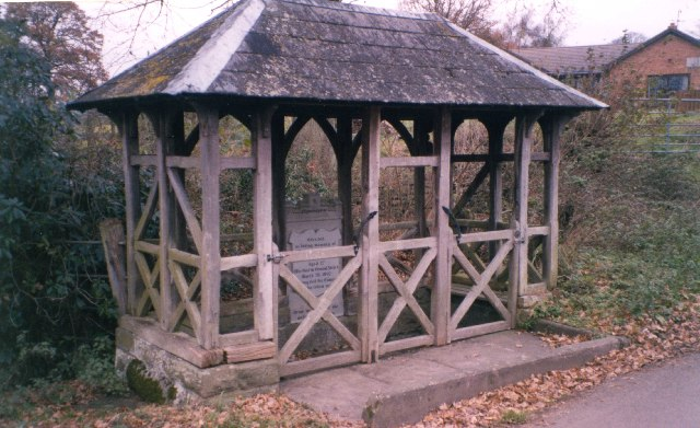 Well, Ffynnon Gwynydd, Glasbury. This is by the roadside just north of the road junction by the common, on which there was probably a monastery of the Celtic church.